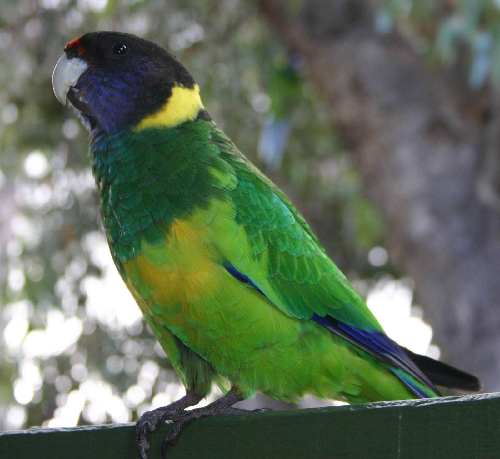 I took this photograph of Australian Ringneck in April 2006 near Augusta, Western Australia. Takver ( This bird is most likely a hybrid as describe in the article as it has Twenty Eight (B. z.semitorquatus) feature of the red across the nose and Port Lincoln Parrot (B.z.zonarius) feature of the yellow under the body.